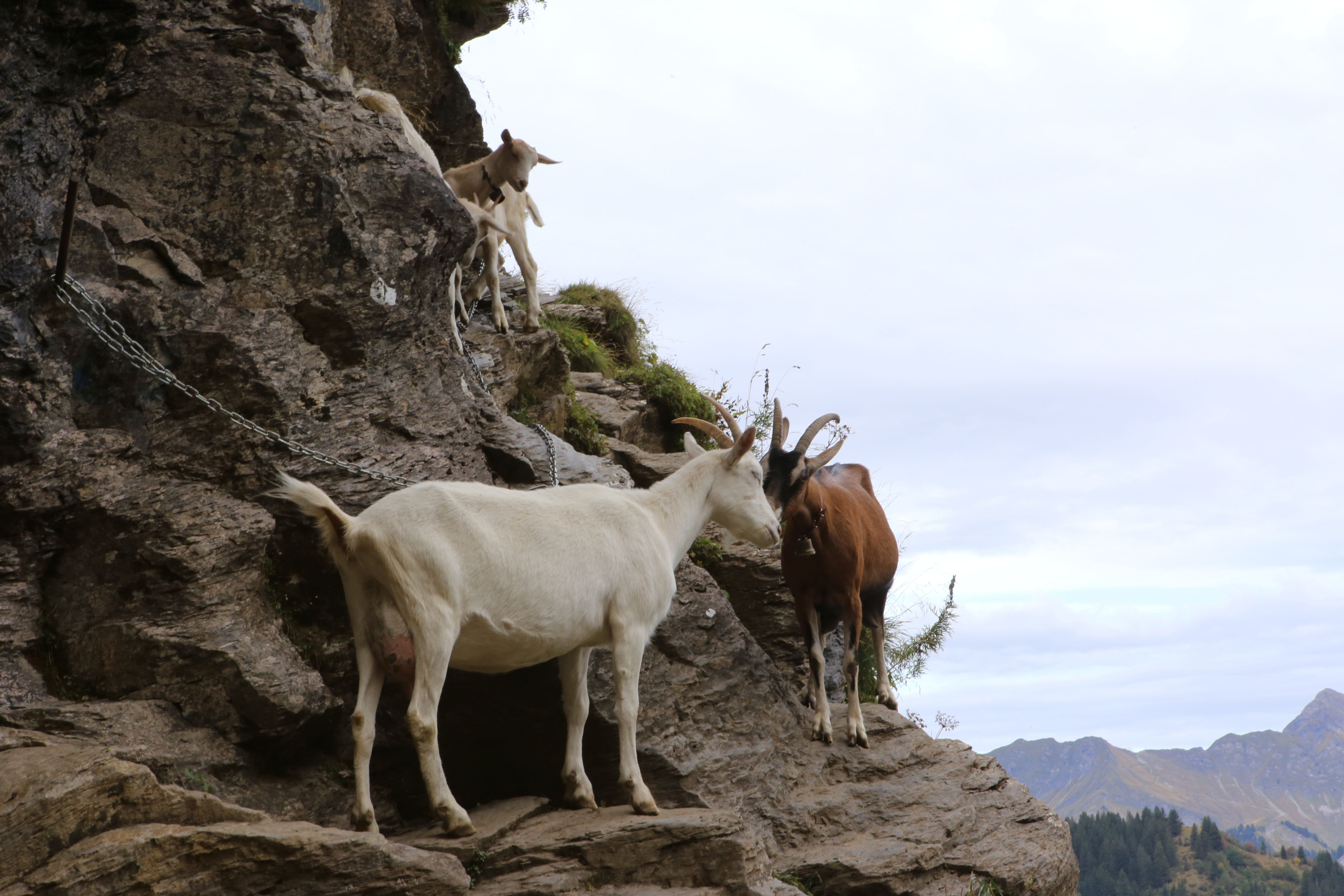 Goats fighting on Pas d'Encel